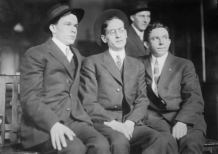 S.T. Pritchett, Robert Lee Etheridge, Oscar Perkins Bain News Service,, publisher. S.T. Pritchett -- R.L. Etheridge -- Oscar Perkins [between ca. 1910 and ca. 1915] 1 negative : glass ; 5 x 7 in. or smaller. Notes: Title from unverified data provided by the Bain News Service on the negatives or caption cards. Forms part of: George Grantham Bain Collection (Library of Congress). Format: Glass negatives. Repository: Library of Congress, Prints and Photographs Division, Washington, D.C. 20540 USA, General information about the Bain Collection is available at Persistent URL: Call Number: LC-B2- 2993-1